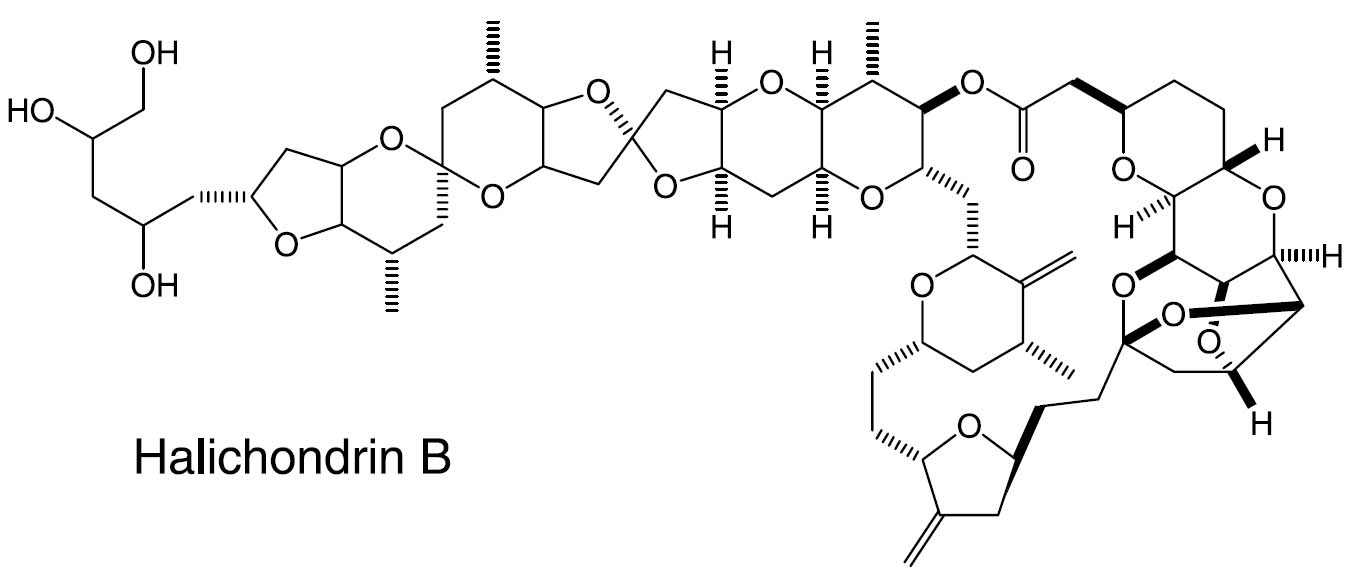 1354x576 jpg, 62,0 kb